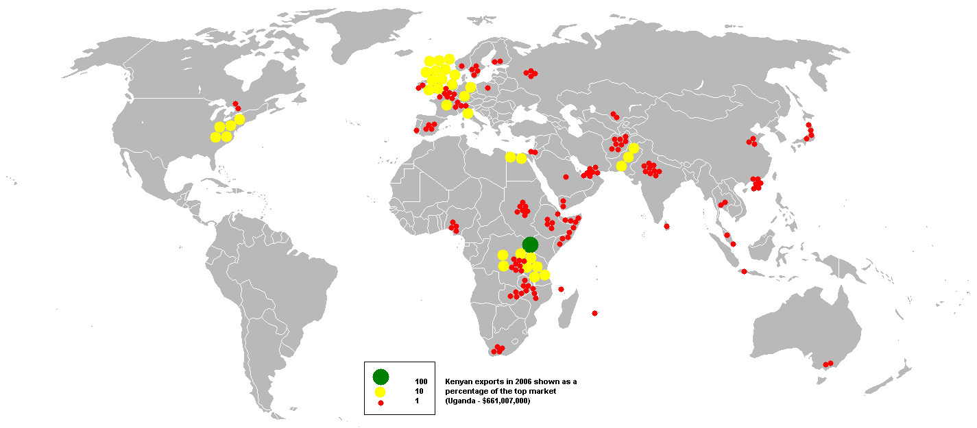 This bubble map shows the global distribution of Kenyan exports in 2006 as a percentage of the top market (Uganda - $661,007,000). This map is consistent with incomplete set of data too as long as the top producer is known. It resolves the accessibility issues faced by colour-coded maps that may not be properly rendered in old computer screens. Data was extracted on 28th September 2007 from Based on :Image:BlankMap-World.png